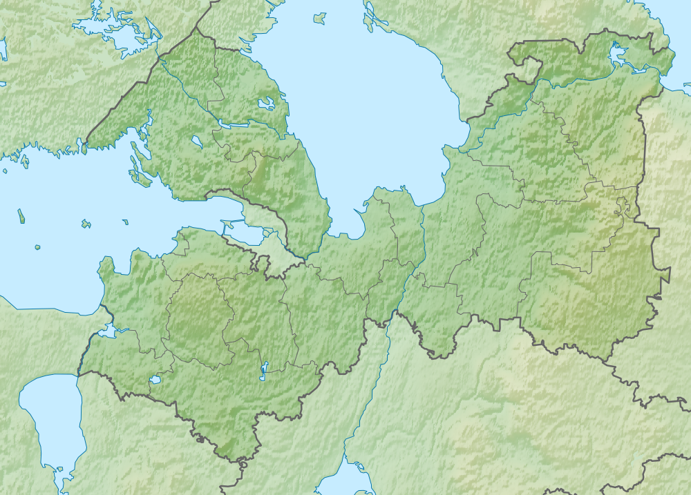 Topographic map of Leningrad Oblast (darker green) — in Northwest European Russia. Showing the Baltic Sea (left), Lake Ladoga (center top, large), and the Karelian Isthmus (between them, darker green). The city of Saint Petersburg is the light green area on the Baltic's easternmost bay, south of the Isthmus. Finland is in northwest (upper left corner).